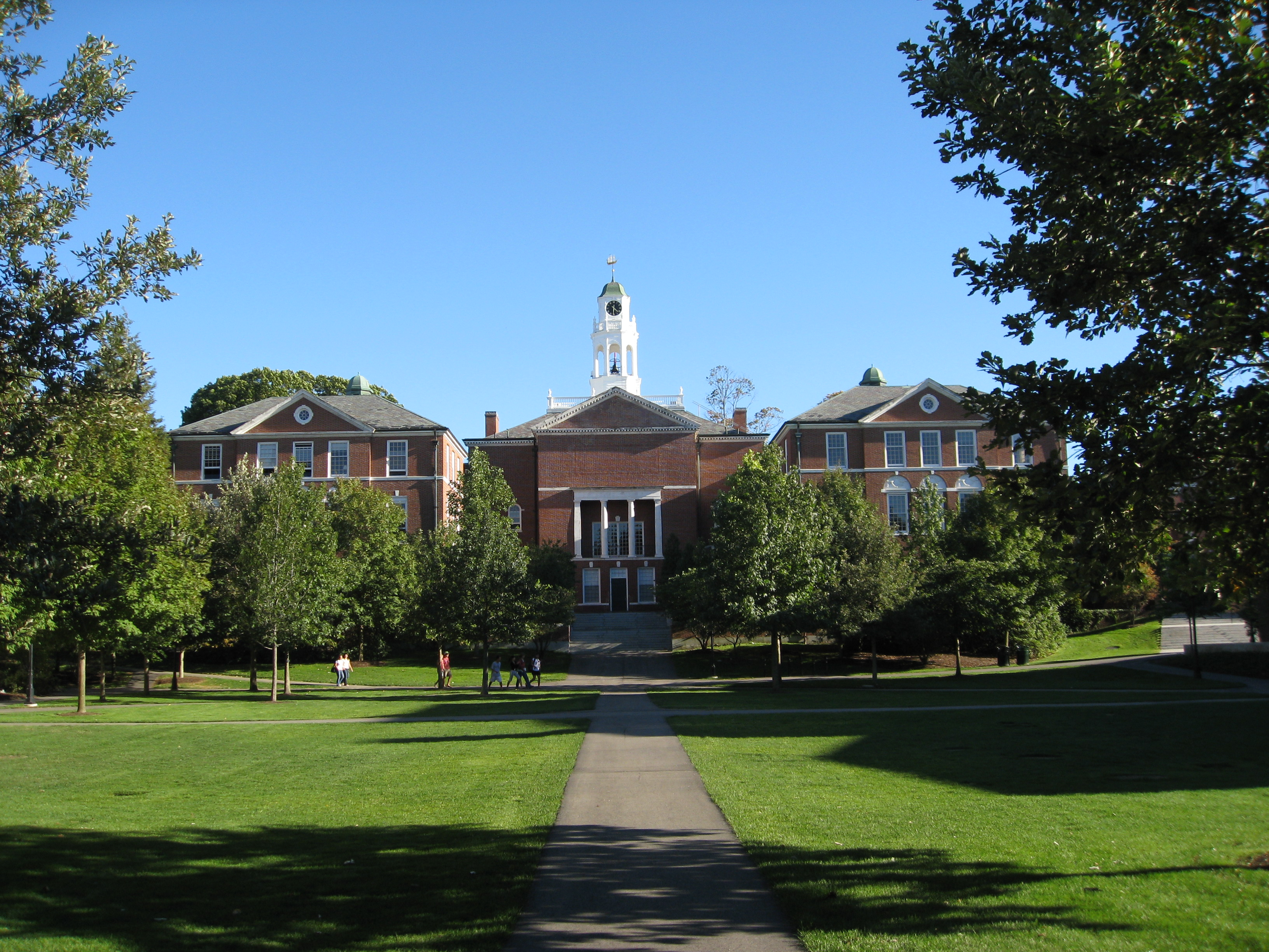 The Academy Building from the Academic Quad.